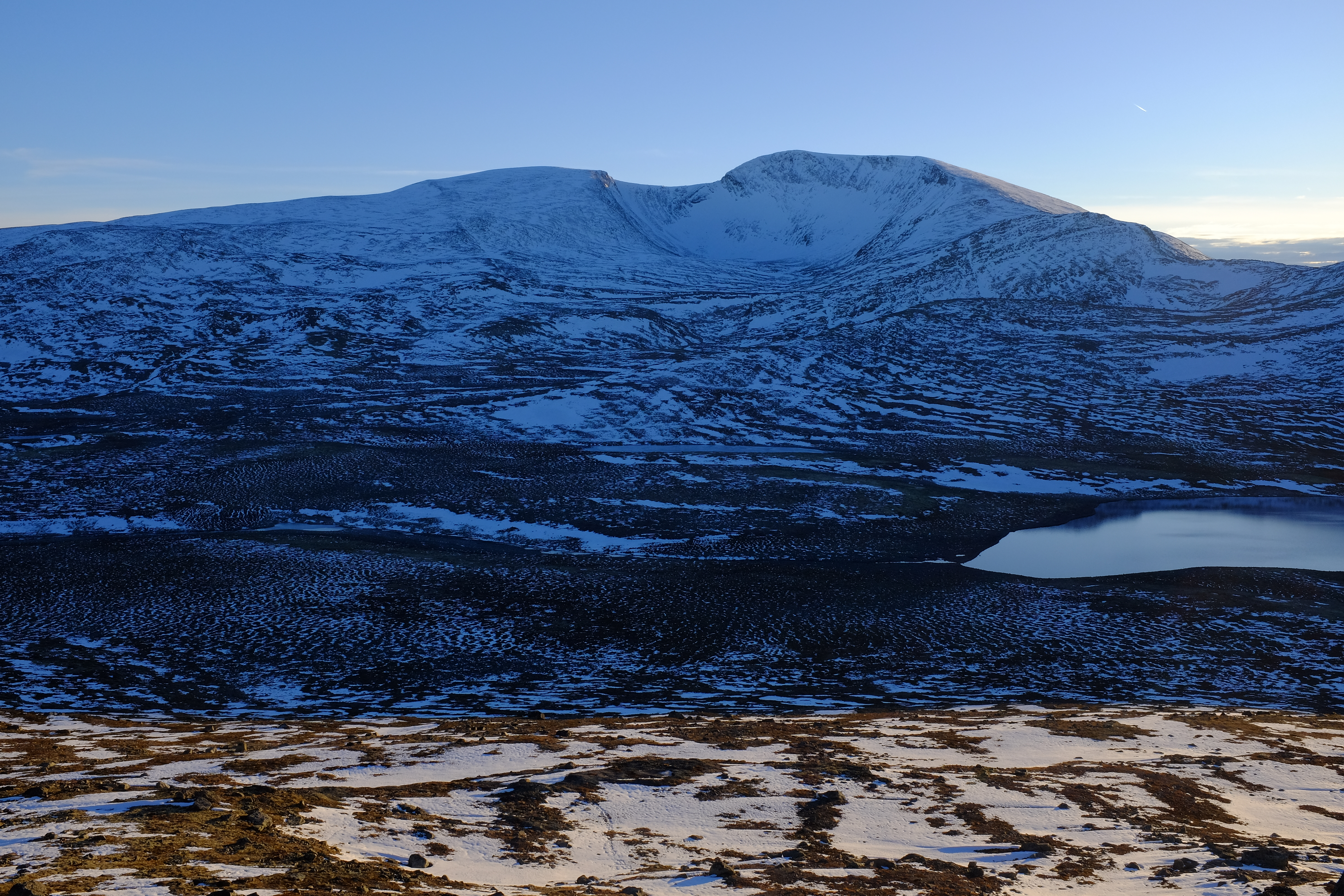 View of Storskarhøa mountain from Bollåthøa hill, Sunndal, Møre og Romsdal, Norway. The first snow in October has come.